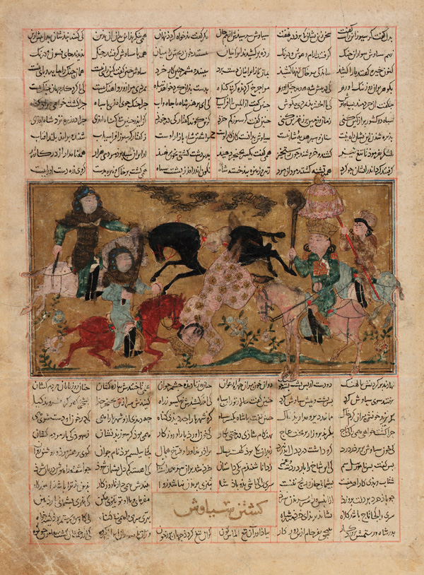 Folio (Siyawash taken in battle by Afrasiyab) from Shahnameh (Book of Kings).